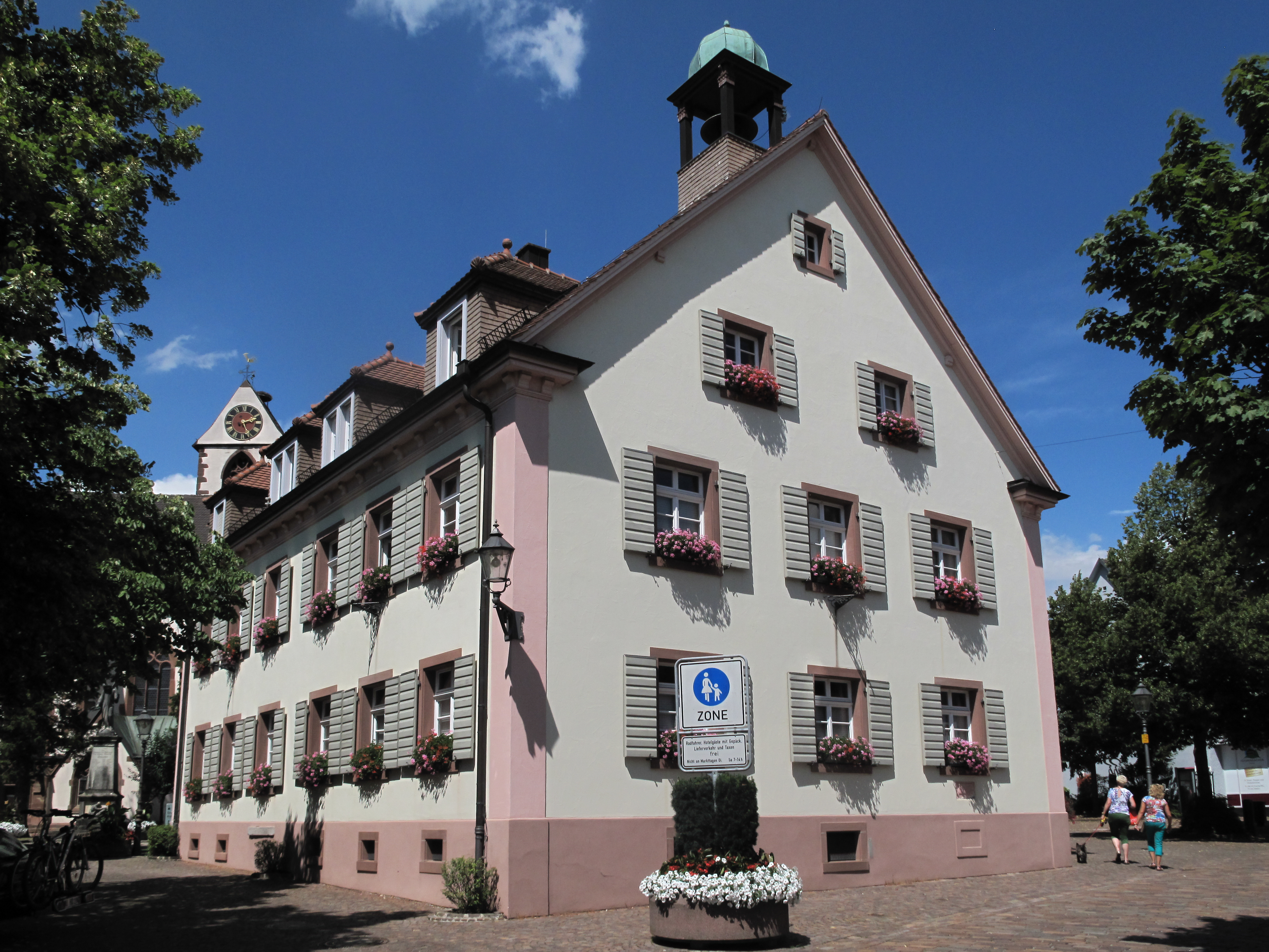 Kirchzarten, townhall